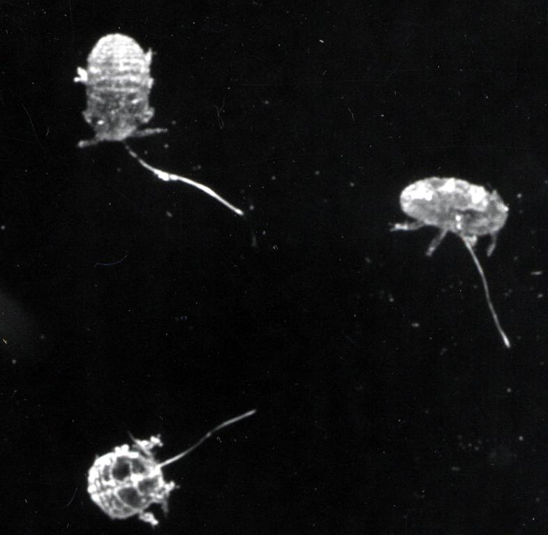 Young larvae of balsam woolly adelgid (Chermes sp.) from Pacific silver fir. Note stylets used by insect to feed from cambium. Toutle River, Washington. Photo by: R.B. Pope and Ken H. Wright Date: 1955 Credit: USDA Forest Service, Pacific Northwest Region, State and Private Forestry, Forest Health Protection. Collection: Portland Station Collection; La Grande, Oregon. Image: PS-1023 For more about the balsam woolly adelgid see: Ragenovich, I.R. and R.G. Mitchell. 2006. Balsam Woolly Adelgid. Forest Insect and Disease Leaflet 118. USDA Forest Service, available here: To learn more about this photo collection see: Wickman, B.E., Torgersen, T.R. and Furniss, M.M. 2002. Photographic images and history of forest insect investigations on the Pacific Slope, 1903-1953. Part 2. Oregon and Washington. American Entomologist, 48(3), p. 178-185. For additional historic forest entomology photos, stories, and resources see the Western Forest Insect Work Conference site: Image provided by USDA Forest Service, Pacific Northwest Region, State and Private Forestry, Forest Health Protection: This image or file is a work of a United States Department of Agriculture employee, taken or made as part of that person's official duties. As a work of the U.S. federal government, the image is in the public domain.